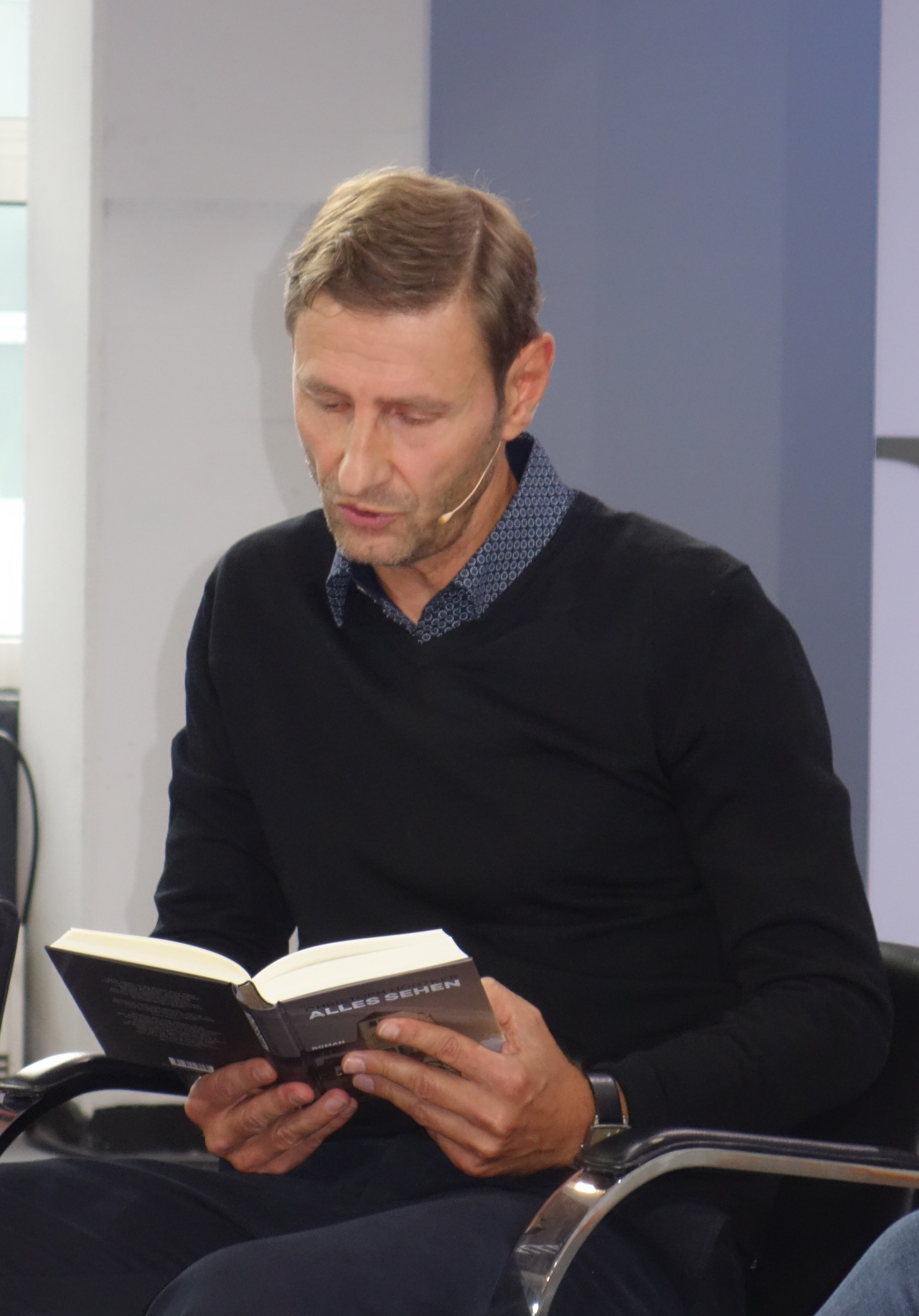 Christoph Höhtker at the Frankfurt Book Fair 2016.